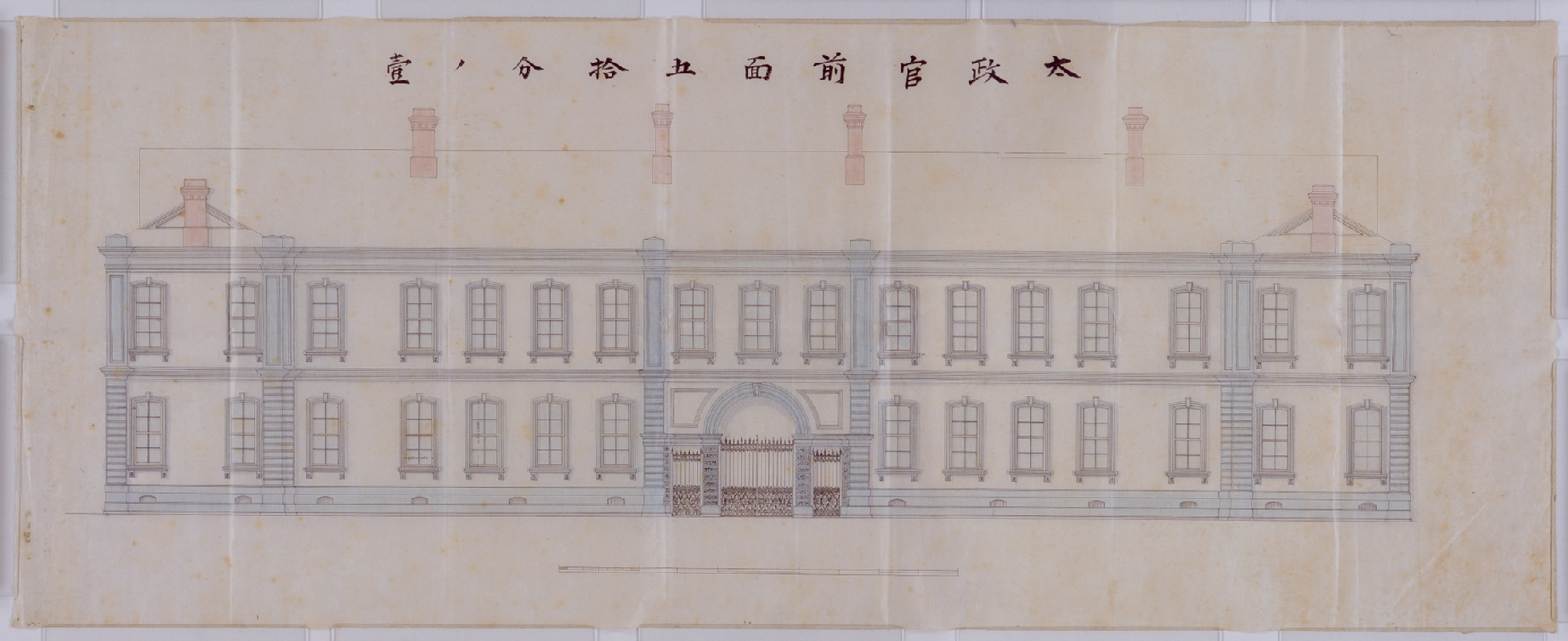 Blueprint of the Dajokan Building